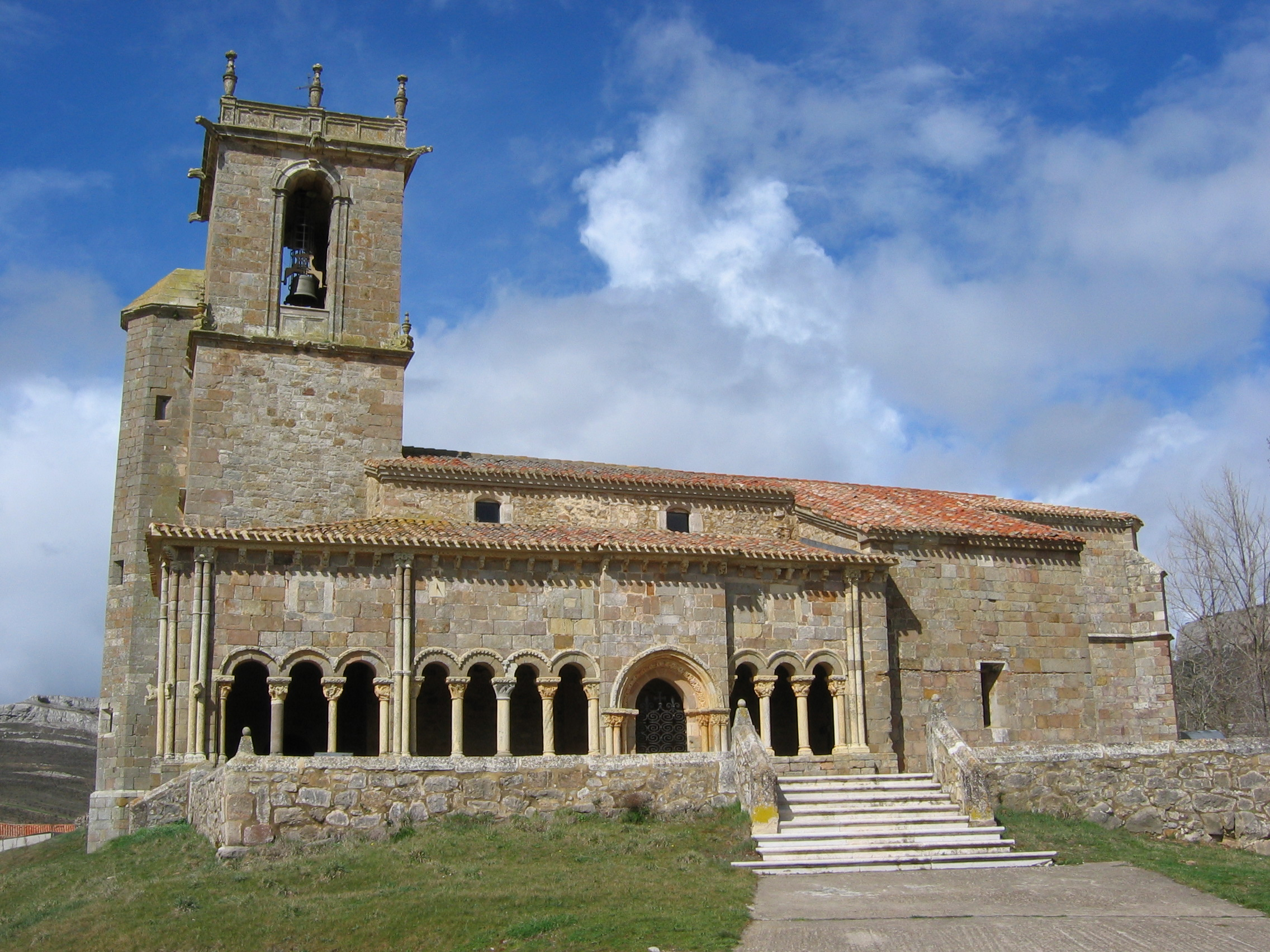 Church of Saints Julian and Basilissa in Rebolledo de la Torre (Burgos, Castile and León).